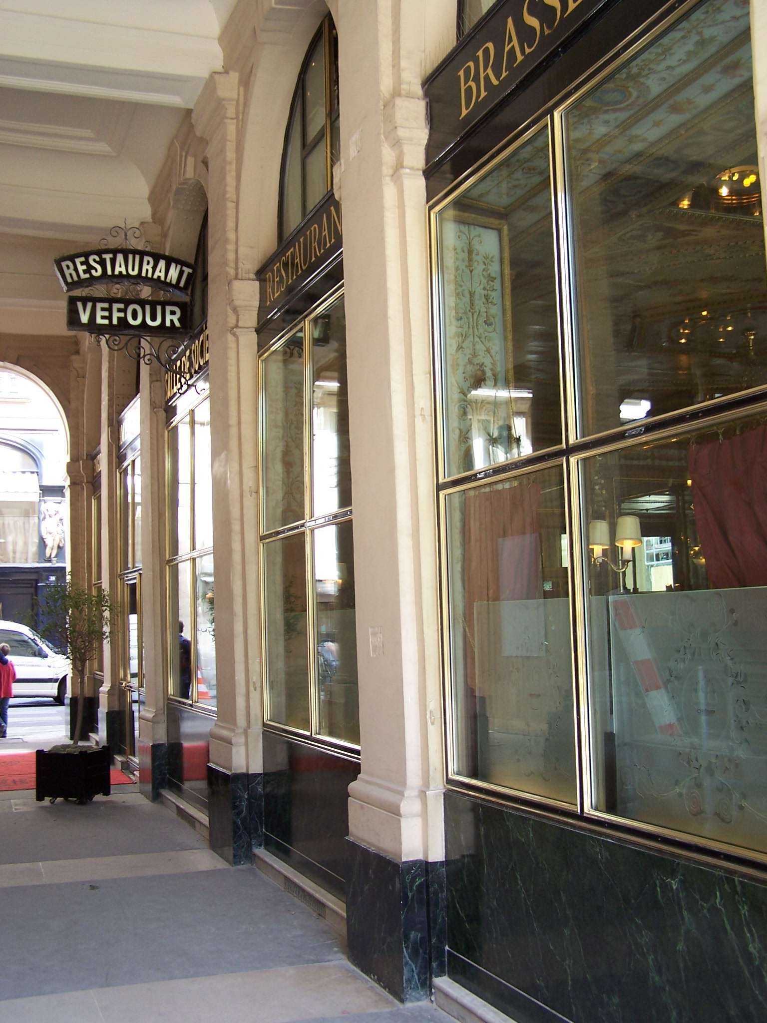 Entrance of the restaurant Le Grand Véfour at Palais-Royal, galerie du Beaujolais, in Paris